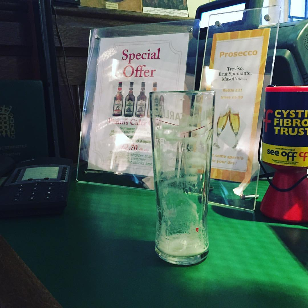 Well done @cftrustuk. Only charity collecting box in the Strangers' Bar, House of Commons. #houseofcommons #parliament #fundraising #charity #collectingtin #cysticfibrosis